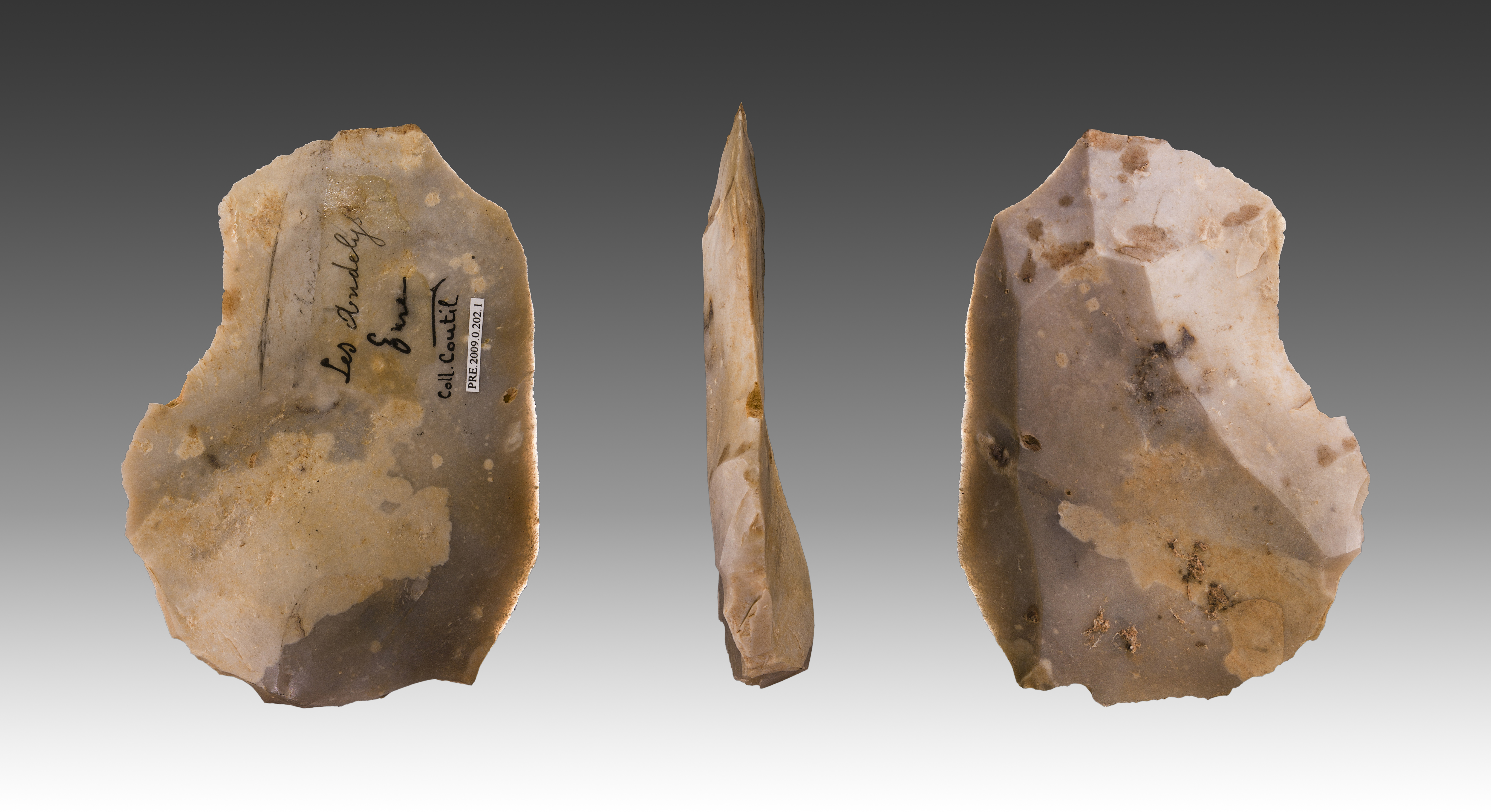 Eclat Levallois - Different views of the same specimen.